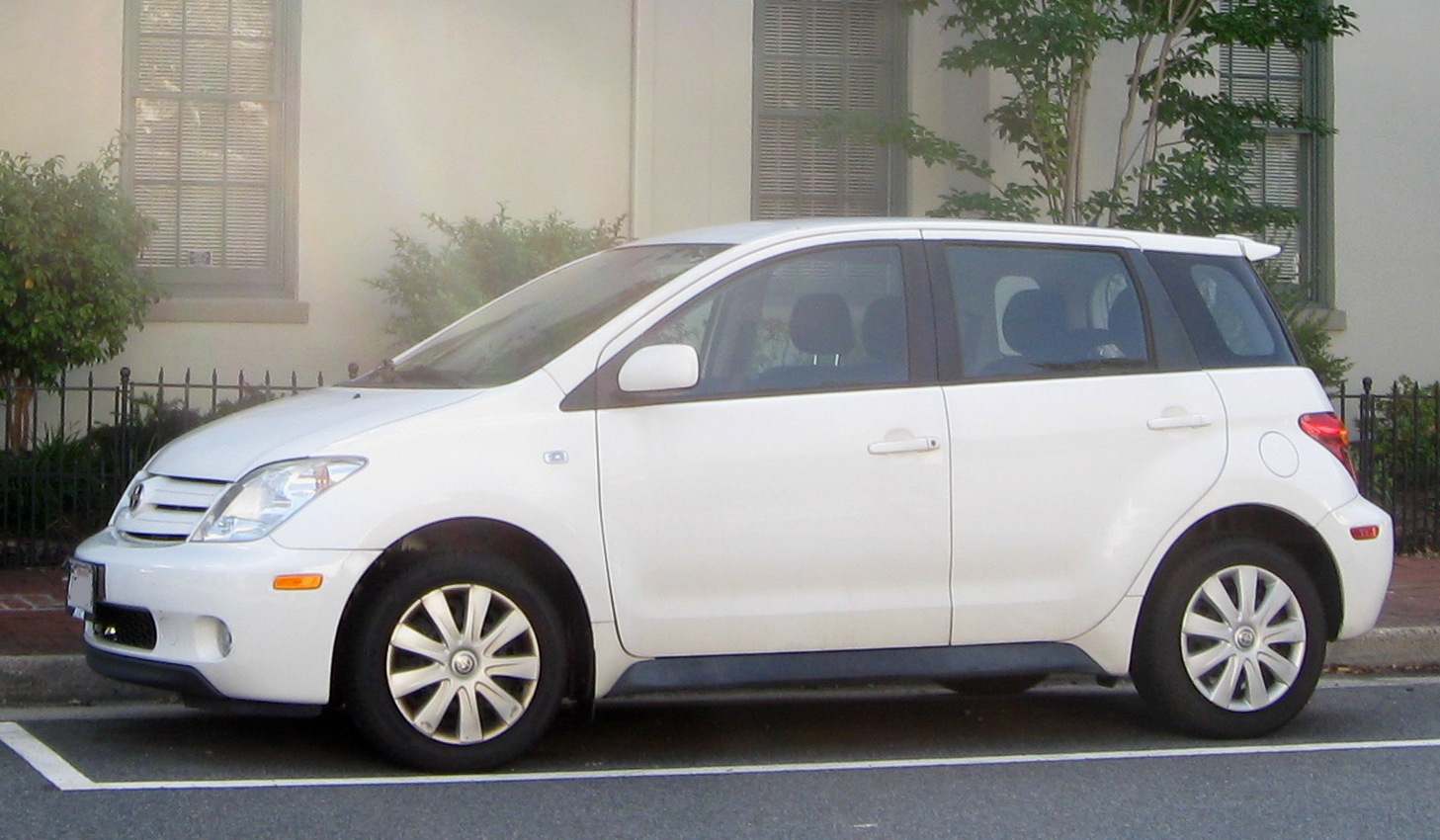 2004-2005 Scion xA photographed in Alexandria, Virginia, USA.